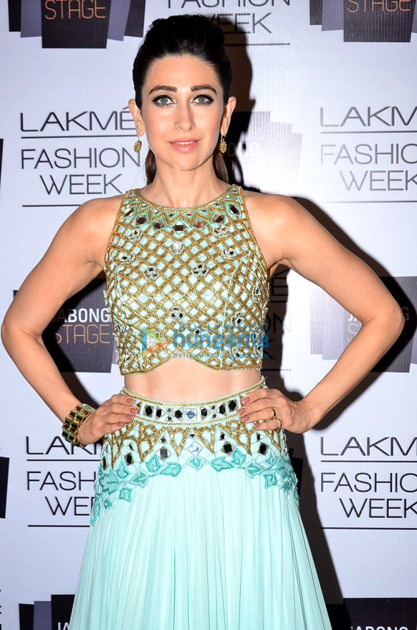 Karisma Kapoor walks the ramp at LFW 2014